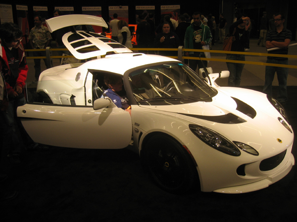 Taken at the 2006 Los Angeles International Auto Show